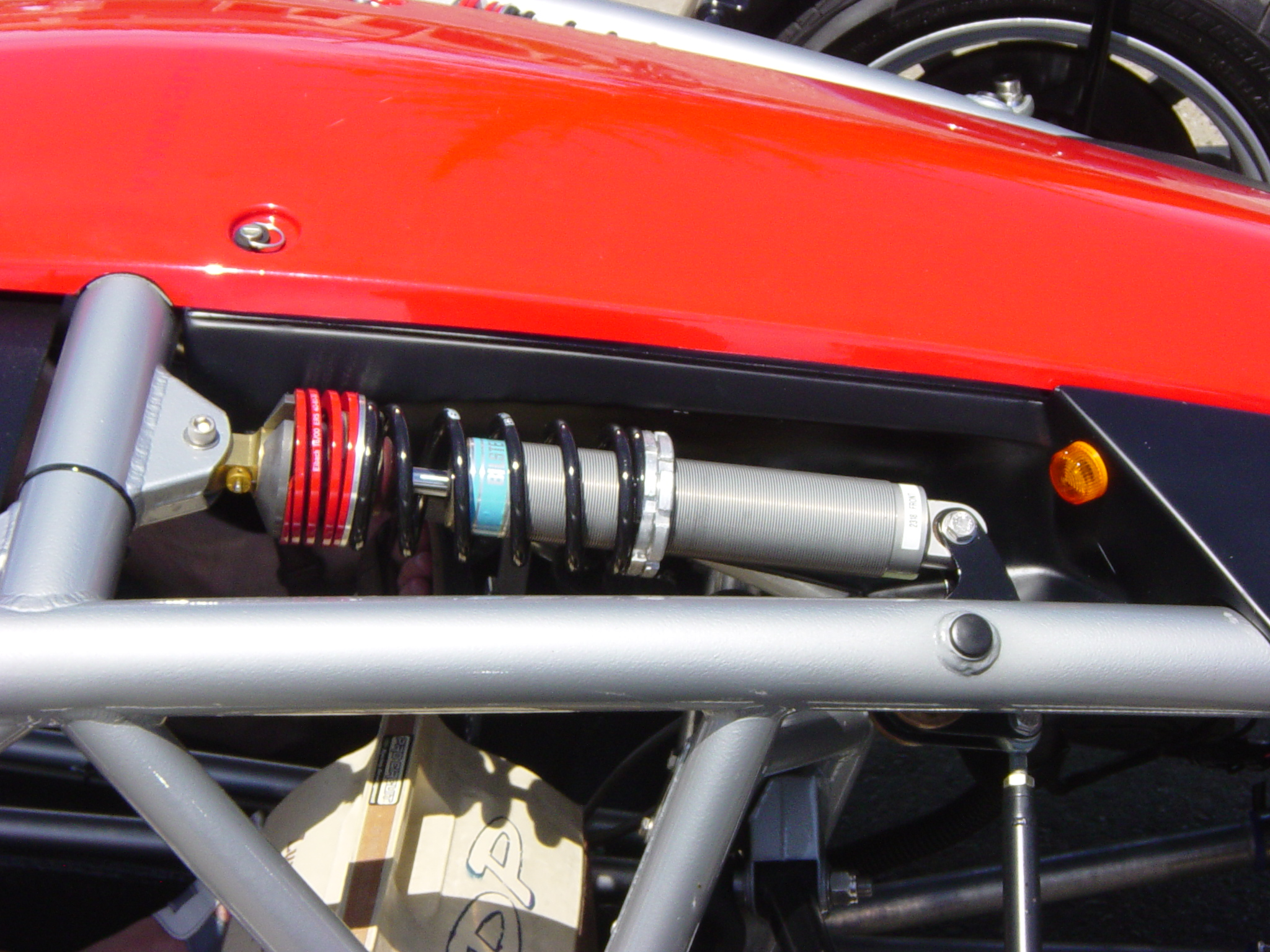 Ariel Atom front series compound spring and shock absorber.